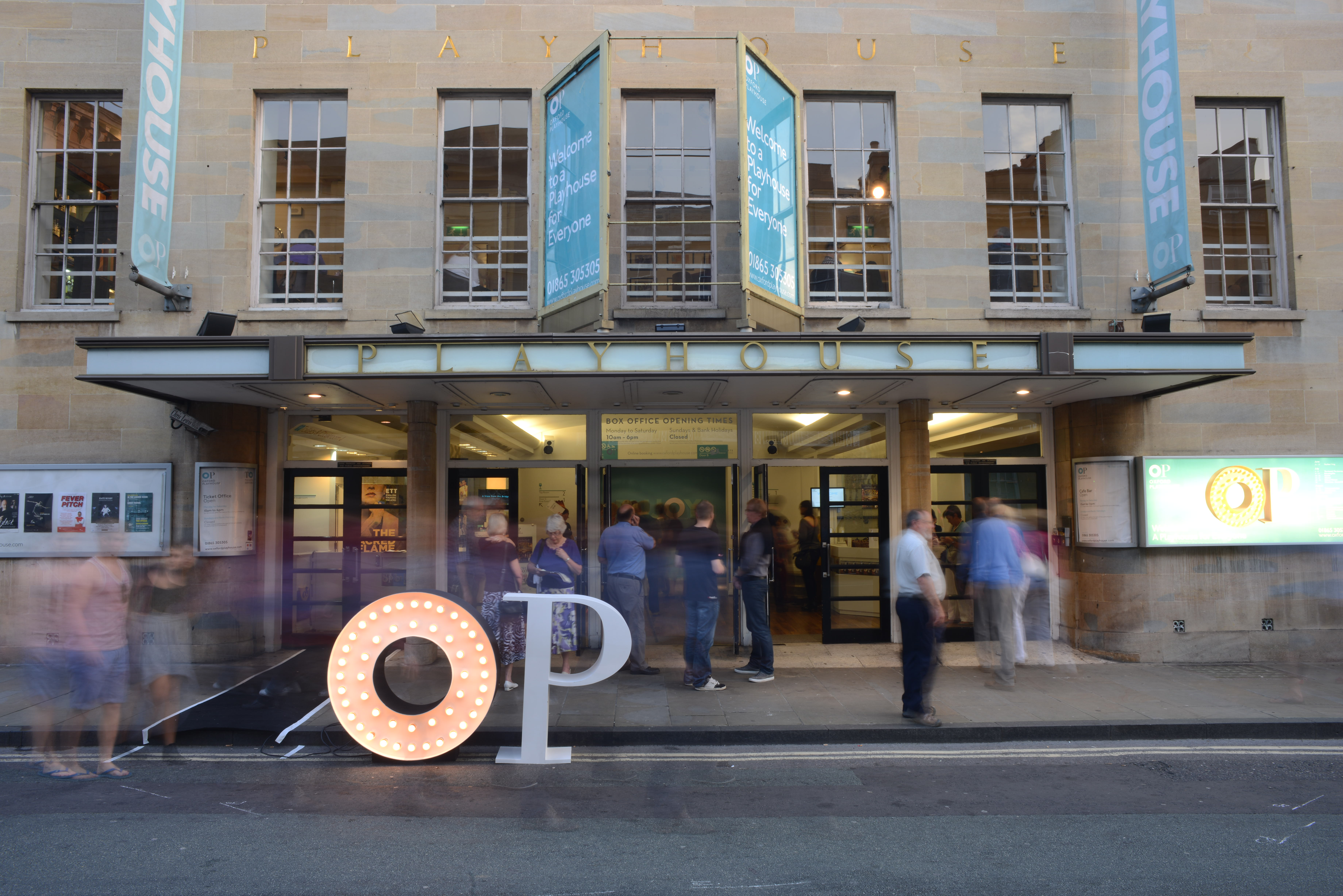 Oxford Playhouse exterior